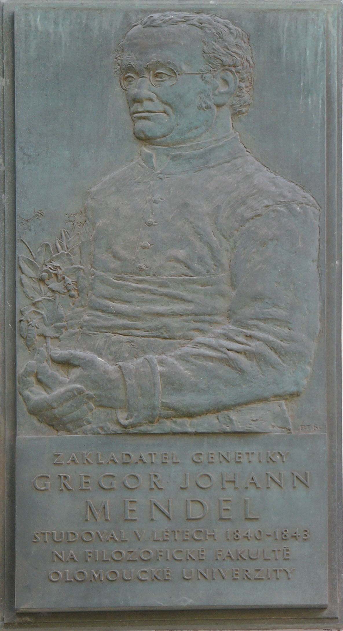 Memorial plaque of Gregor Johann Mendel at University building in Mahlerova street, Olomouc, (Czech Republic). Text is in Czech language: The founder of genetics Gregor Johann Mendel was studing at Philosphical Institute at University in Olomouc from 1840 to 1843.